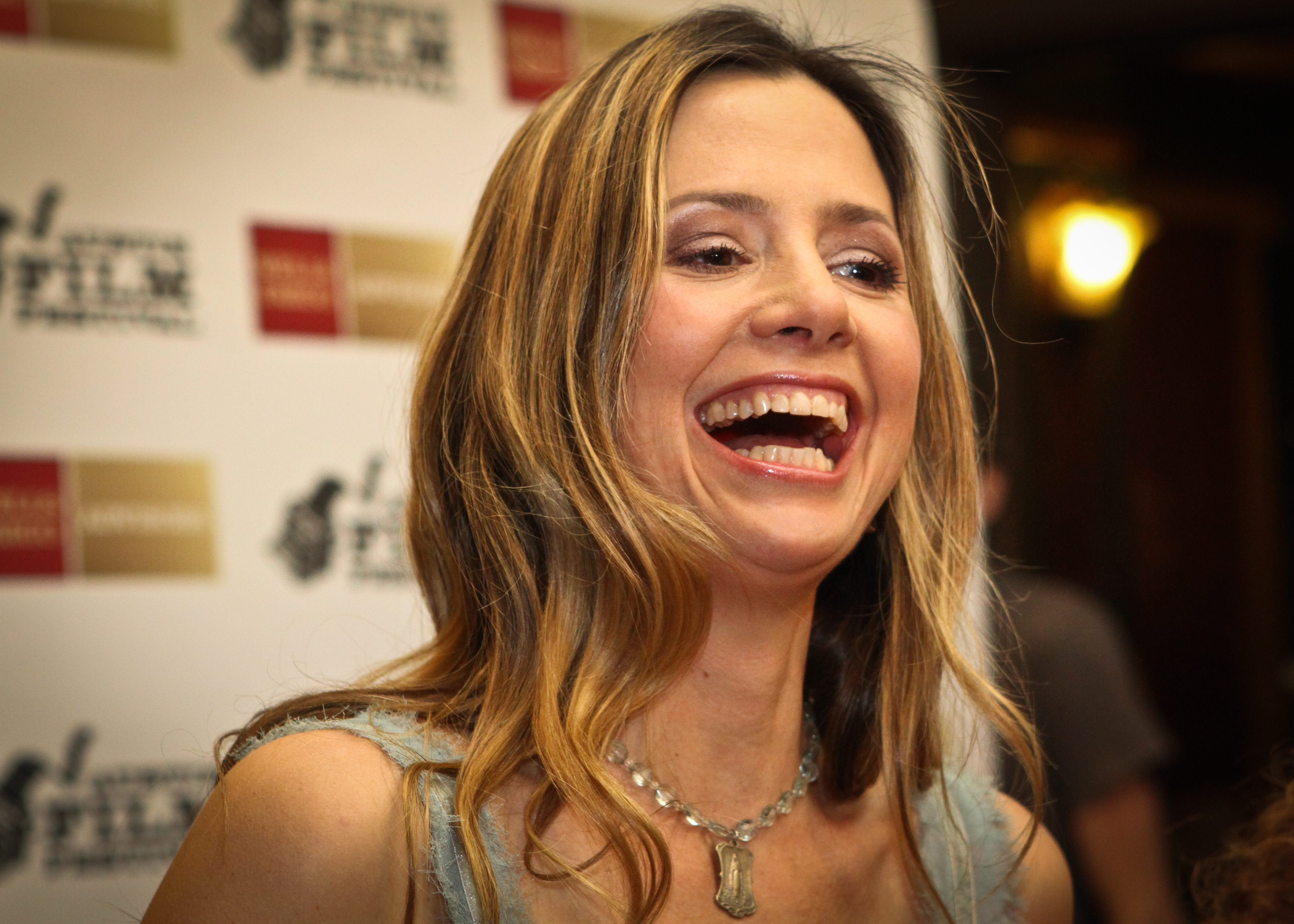 Mira Sorvino at the United States premiere of her film Union Square at the Austin Film Festival, Congress Ave District, Austin, Texas, October 28, 2011